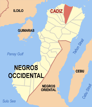 Map of Negros Occidental showing the location of Cadiz